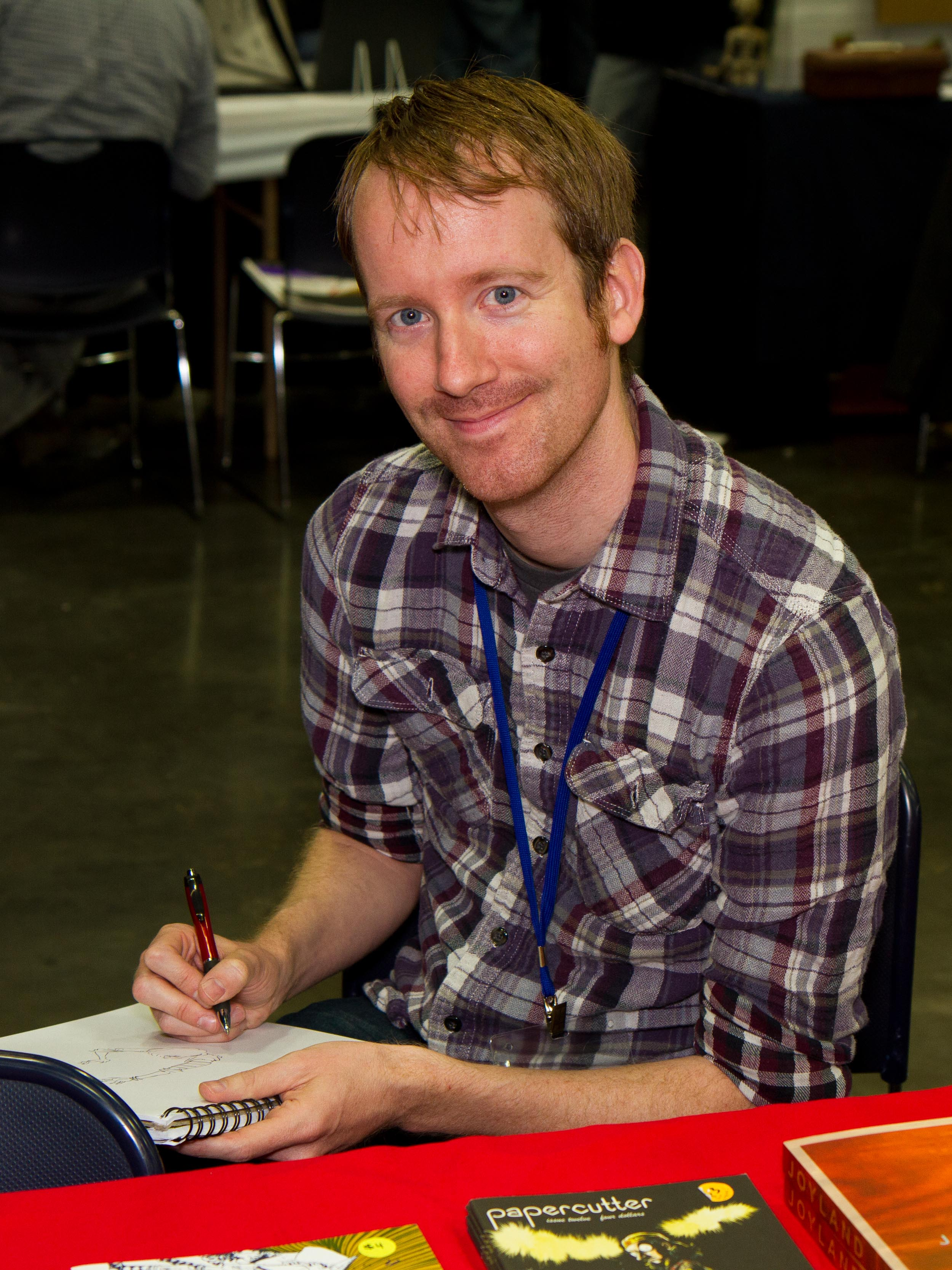 Cartoonist Nate Powell at the 2012 Stumptown Comics Fest in Portland, Oregon